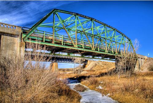 The historic Black Squirrel Creek Bridge, a green steel through truss bridge built in 1934 and listed on the National Register of Historic Places. Next to it, in the background, is a wood deck footbridge retrofitted from a former steel railroad bridge. These bridges are located on U.S. Highway 24 near Peyton, about 20 miles northeast of Colorado Springs, Colorado.